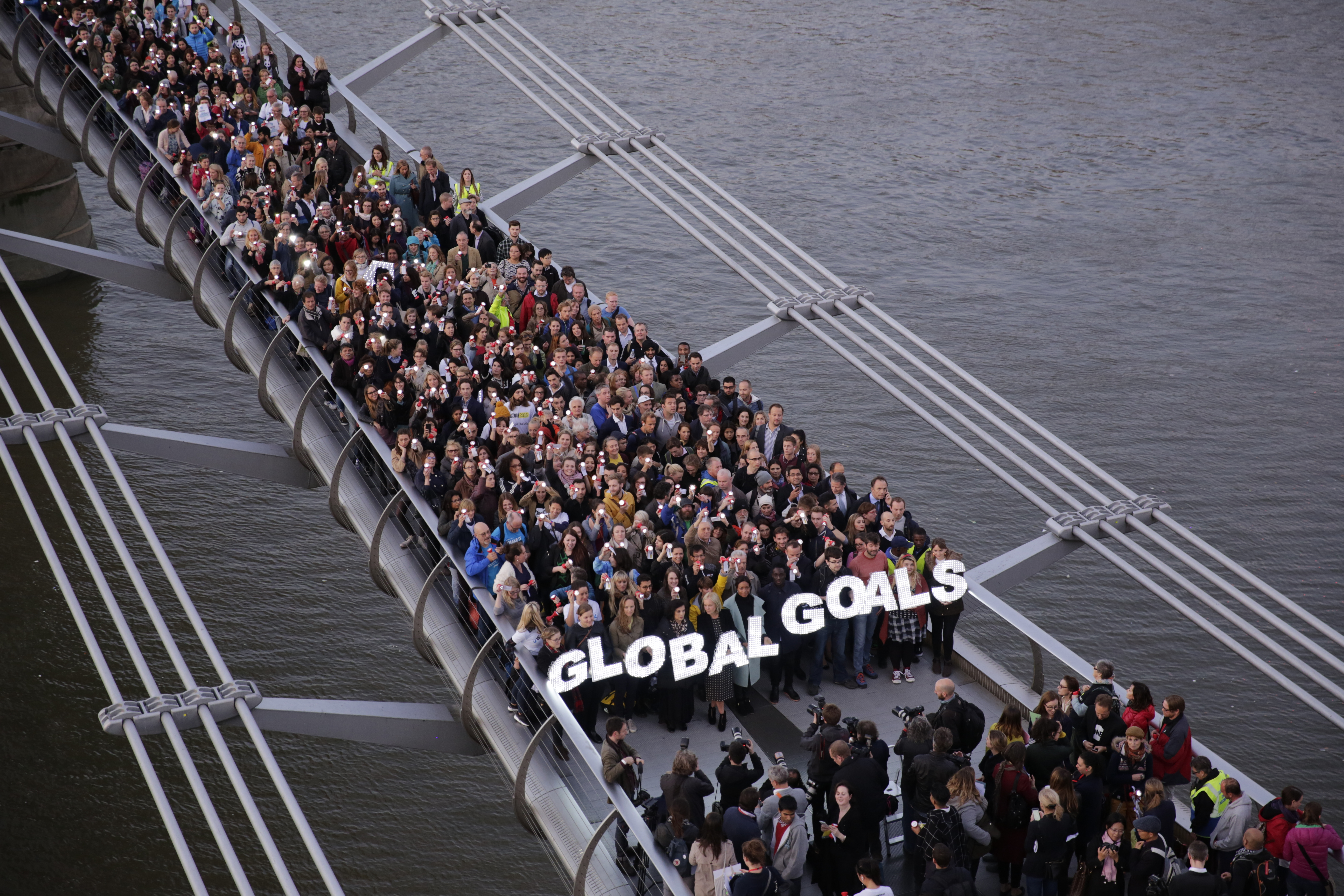 Naomi Harris, Mariella Fostrup and Bianca Jagger lead the mobilisation for Action 2015 Global Goals event that urges world leaders to keep promised made at the UNGA 2015. Images captured by a drone show an aerial view of the London Light the Way event, where thousands of people on the Millennium Bridge in London (Thursday 24th September) gathered as part of action/2015, calling on governments to implement the new Global Goals, which seek to end poverty, inequality and tackle climate change.